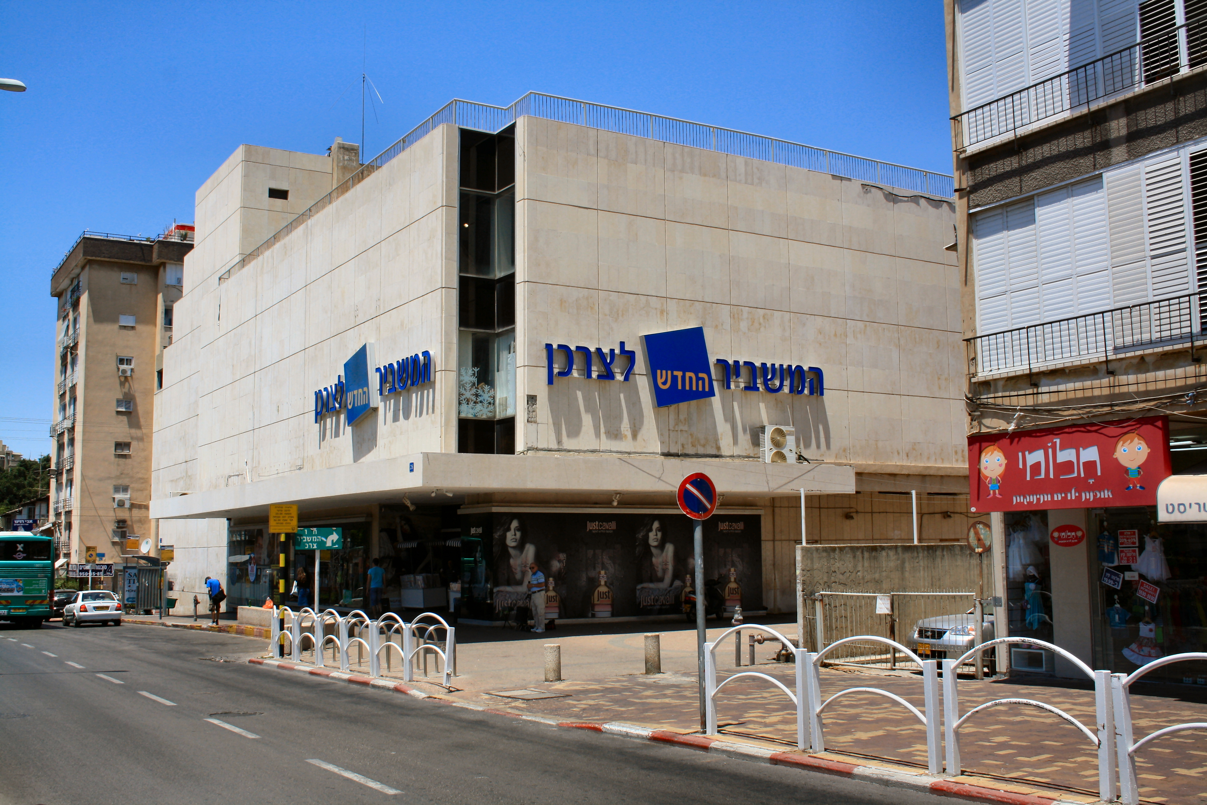 Rishon LeTzion, Jabotinsky road, HaMashbir Mall